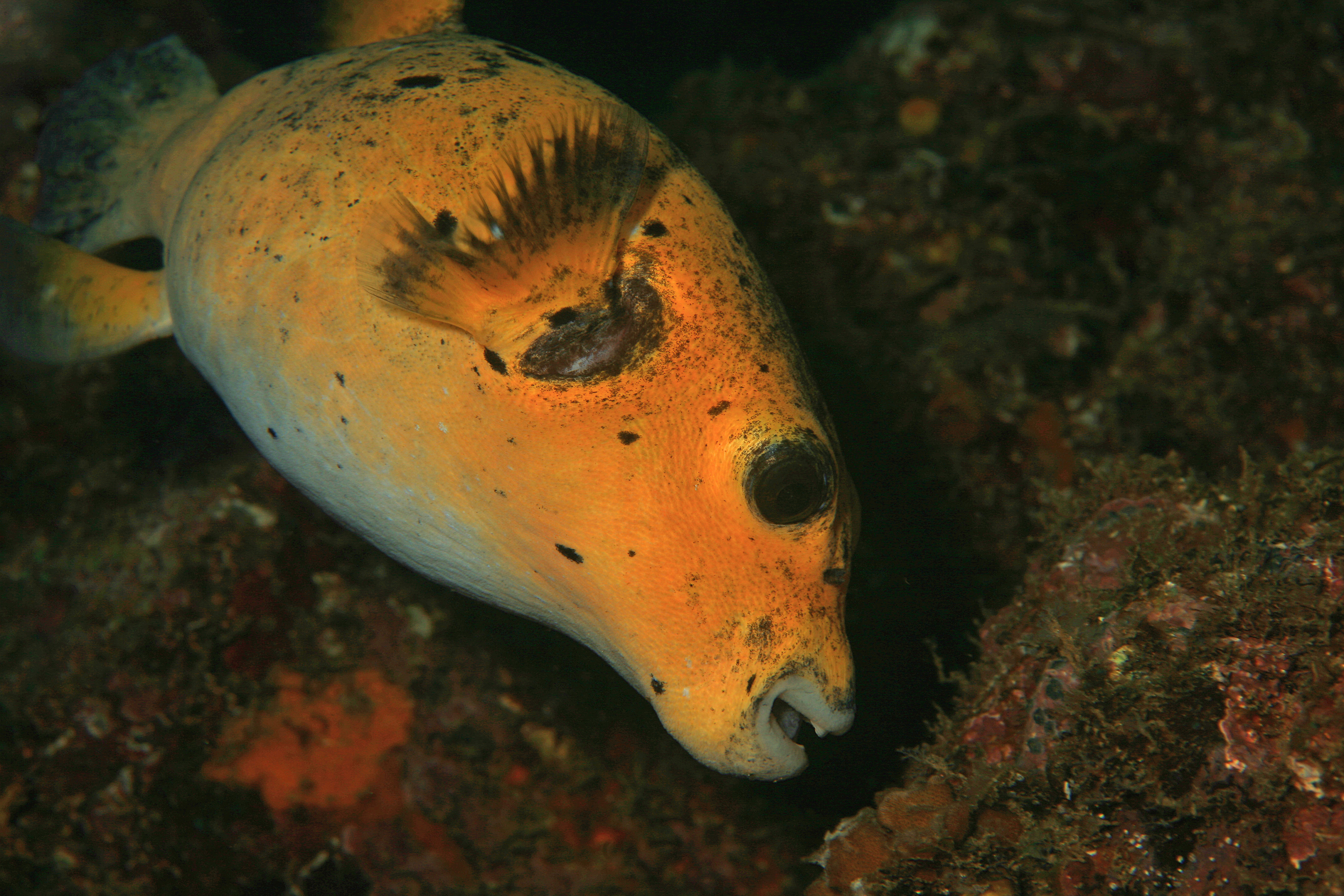 Puffers like the Guineafowl puffer (Arothron meleagris) are common in the waters of the Panamanian Pacific. This golden colored variety is perhaps the most vibrant. Photographed at Machete dive site in the Coiba National Park, Panama.